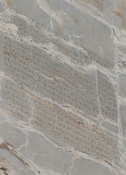 Xerxes inscription in the Gate of all Nations